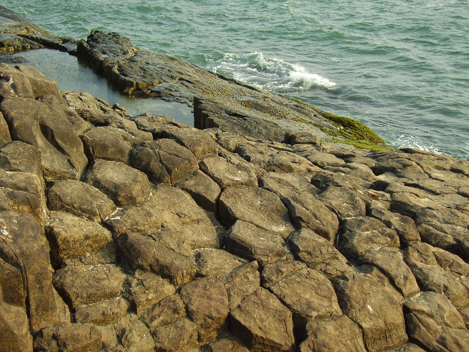 A view of basaltic rock formation in St Mary's Island, Karnataka